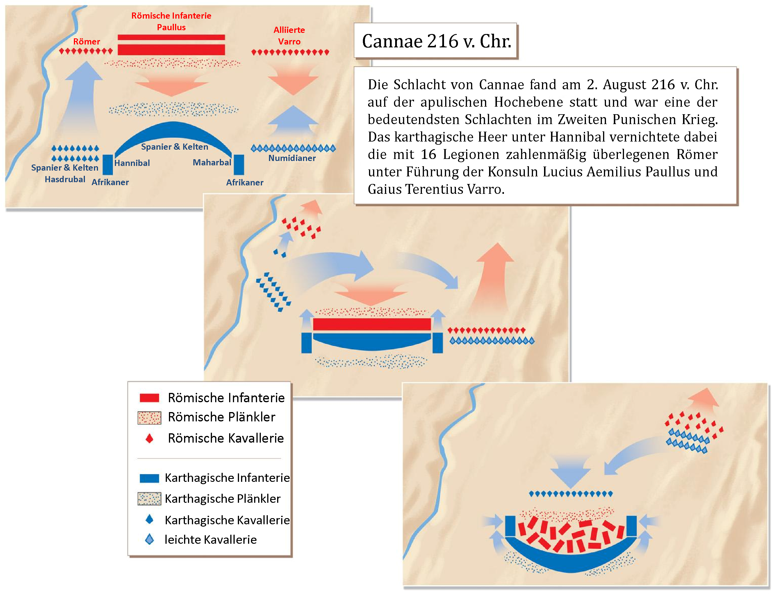 Battle of Cannae 216 BC